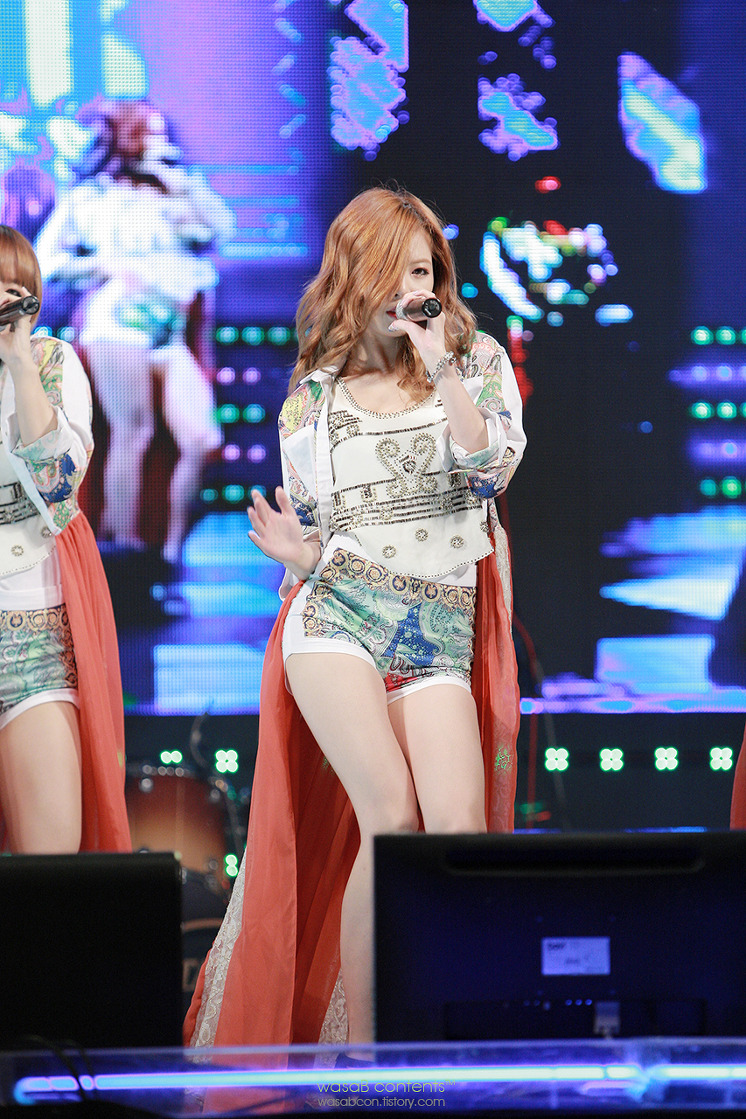 HyunA in September 15, 2012 at the Paju Sound of a Drum Festival.